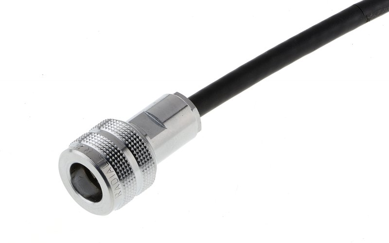 Miniquick is a Co-ax connector invented by Radiall.